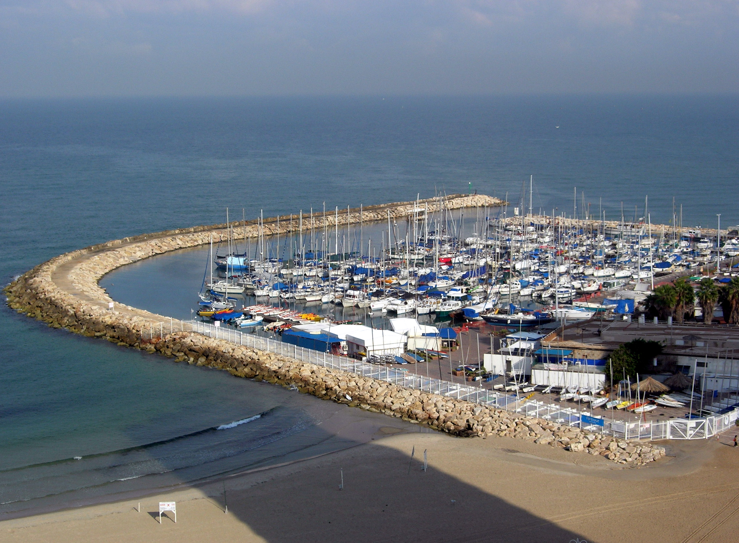 Description =La marina de Tel Aviv Source =Photo taken by Remi Jouan Date =Octobre 2006 Author =Remi Jouan